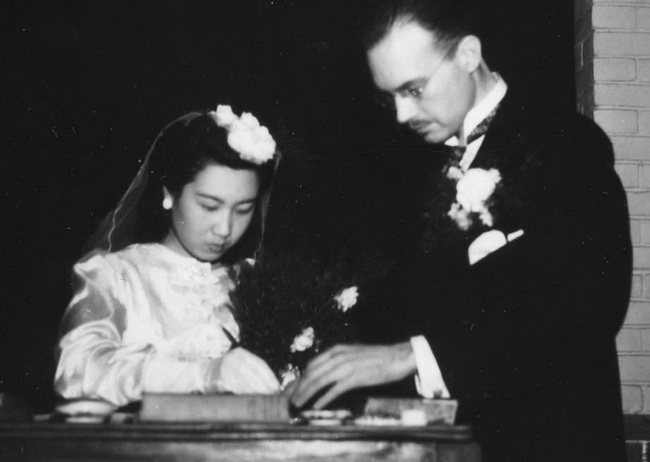 Shui Shifang (daughter of a Qing dynasty Imperial mandarin) & Robert van Gulik get married in Chongqing, Sichuan, China.